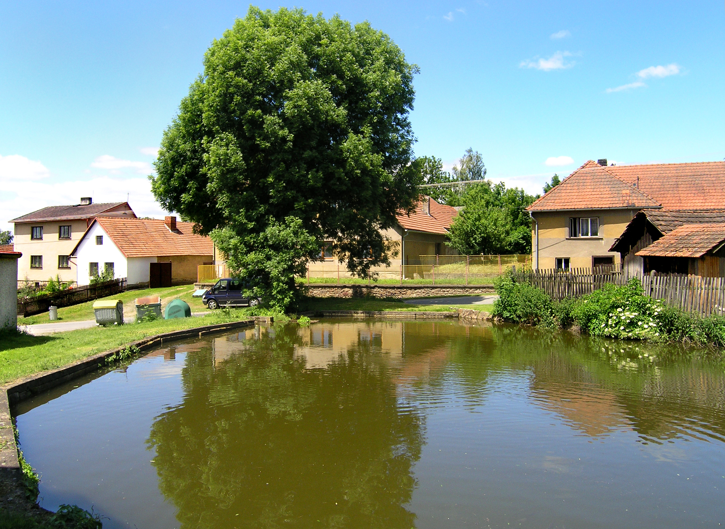 Pond in Těškovice, part of Onšov village, Czech Republic